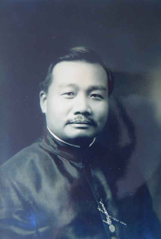 Portrait of Yucho Chow